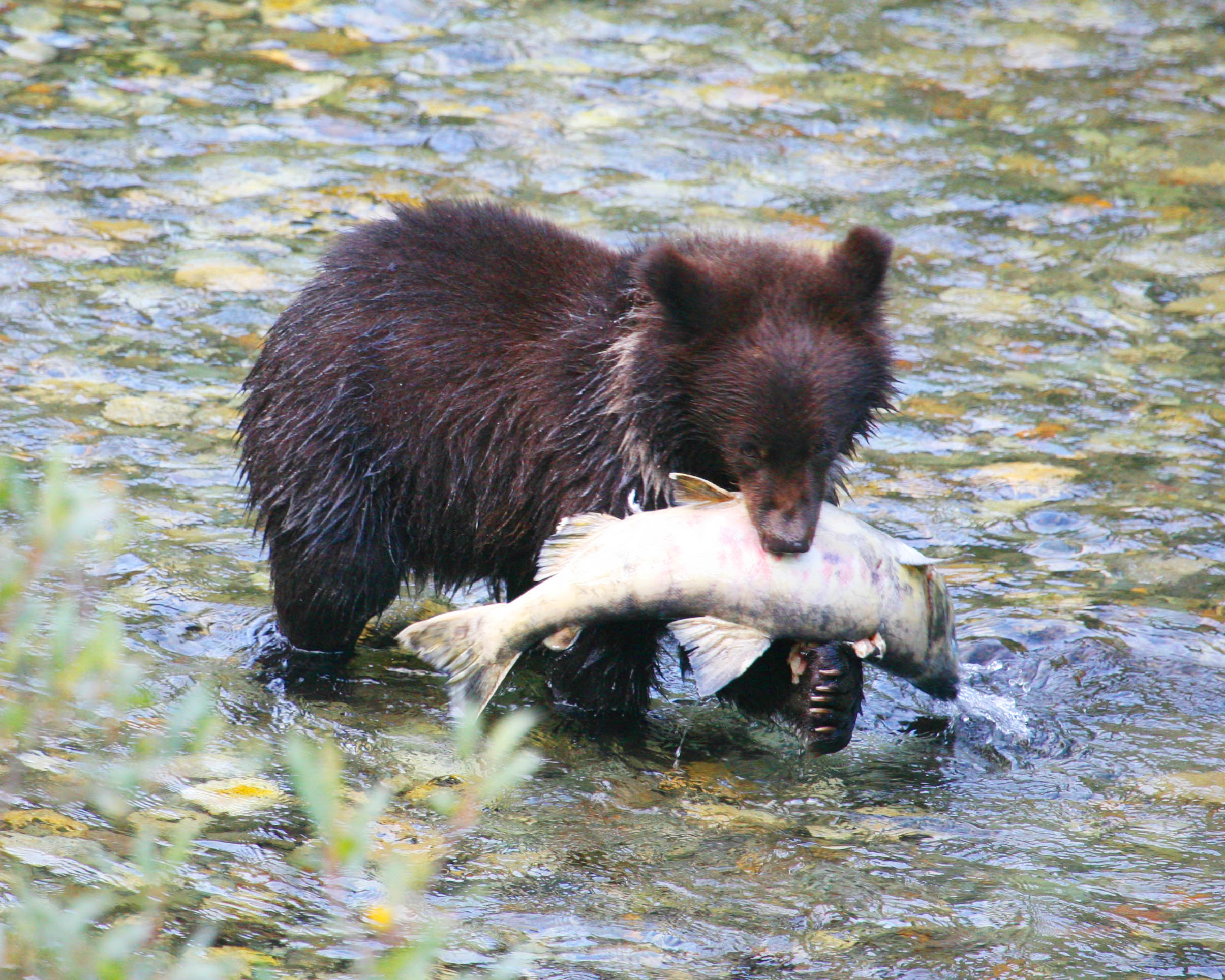 Not only do we need to learn how to catch salmon, but we also need to learn (and practice) how to transport a salmon to the creek bank prior to tearing it apart and munching it.